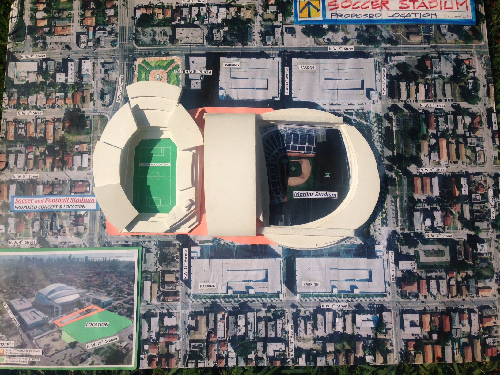 A cardboard rendering of the proposed Major League Soccer stadium in Miami adjacent to Marlins Park